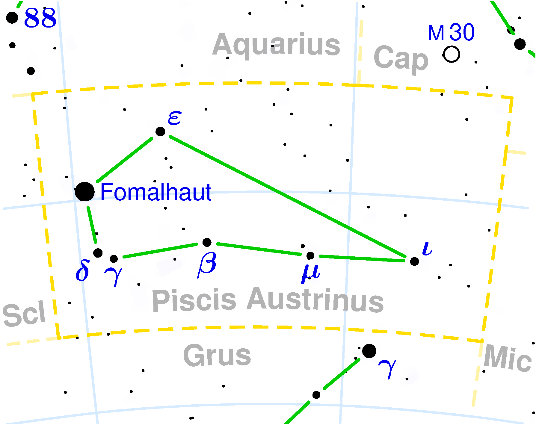 Piscis austrinus constellation map